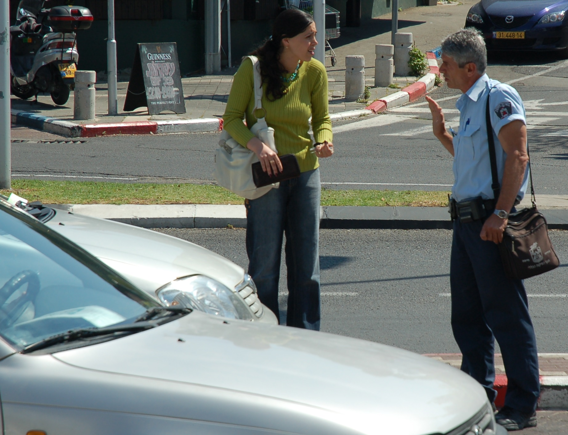 Woman arguing with a Haifa municiple parking enforcement officer about the ticket that he has just placed on her windshield.